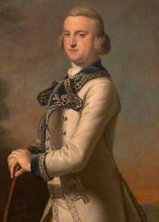 Sir John Pole, 5th Baronet, cropped from a larger painting by Thomas Hudson